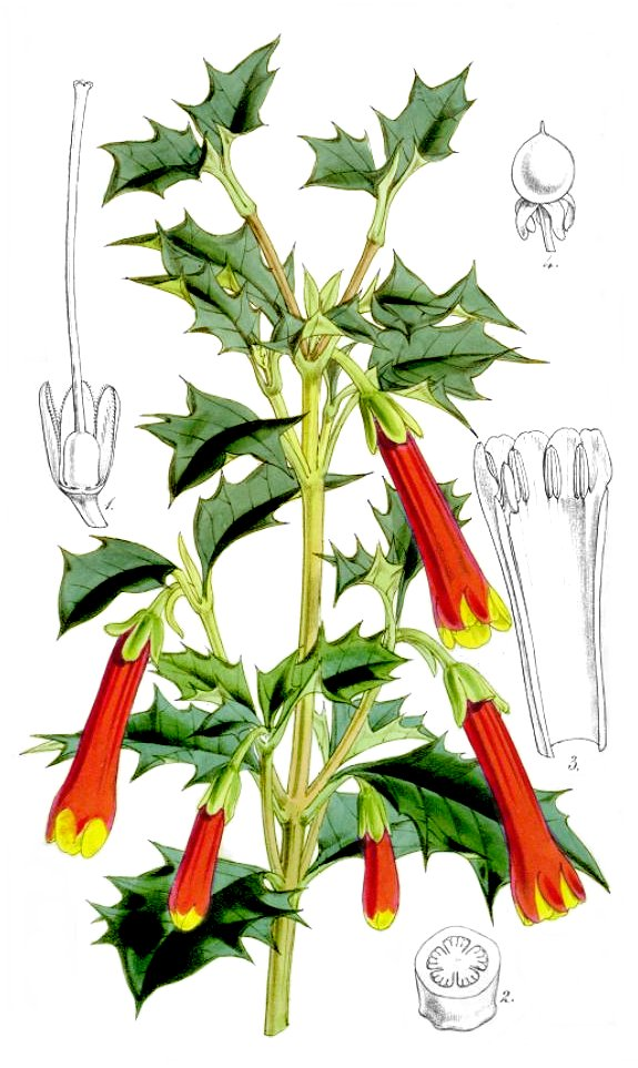 Illustration of Desfontainia spinosa